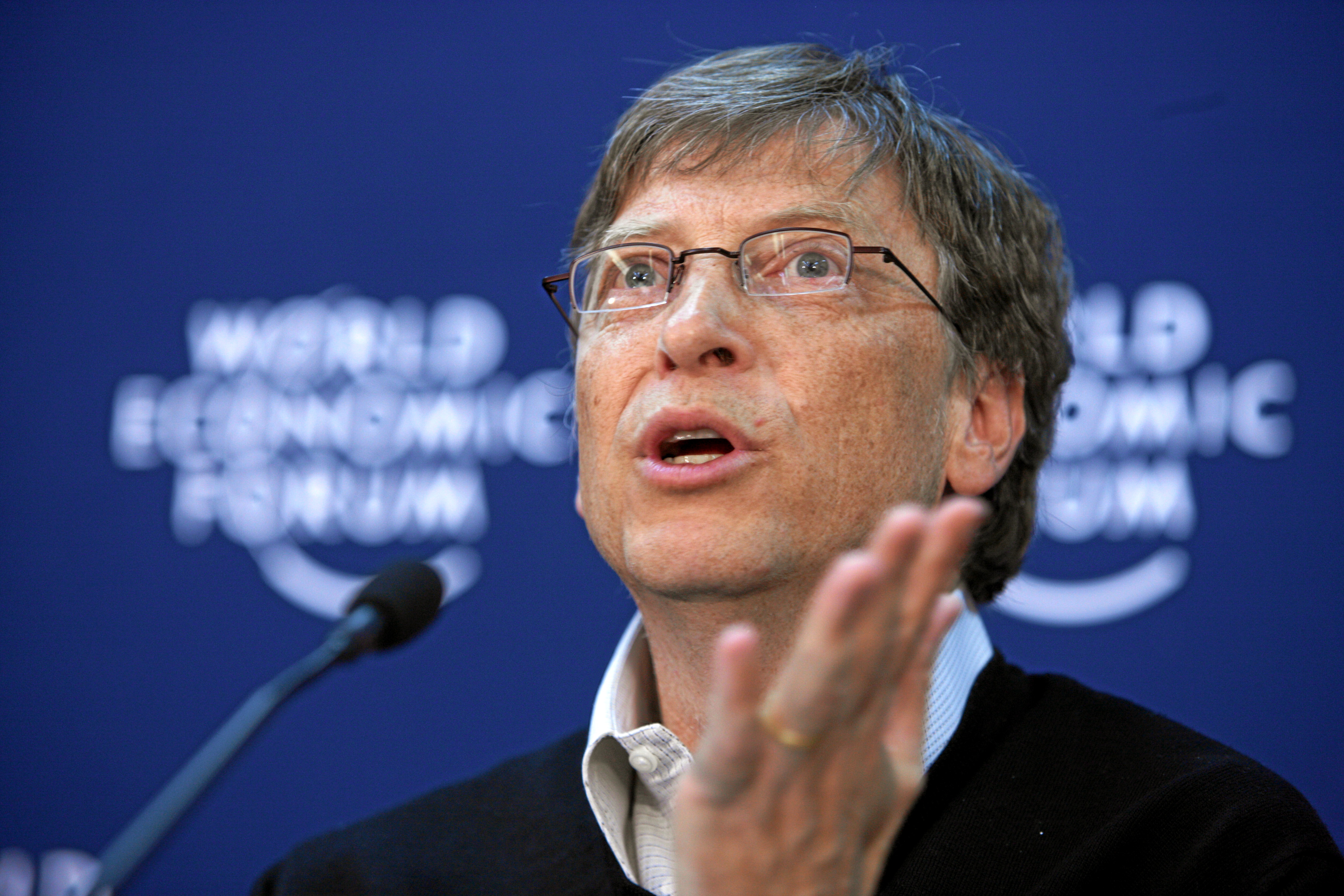 DAVOS/SWITZERLAND, 25JAN08 - William H. Gates III, Chairman, Microsoft Corporation, USA, captured during a press conference at the Annual Meeting 2008 of the World Economic Forum in Davos, Switzerland, January 25, 2008. Copyright World Economic Forum ( by Andy Mettler